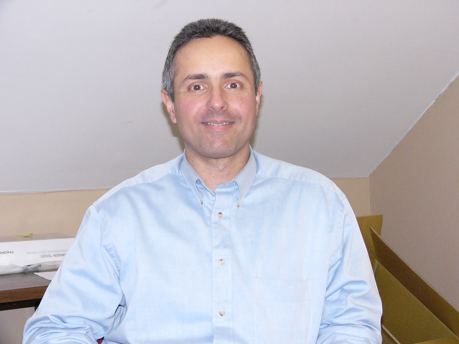 Roland Few, Executive Director, National Capital Freenet, 2008 to date